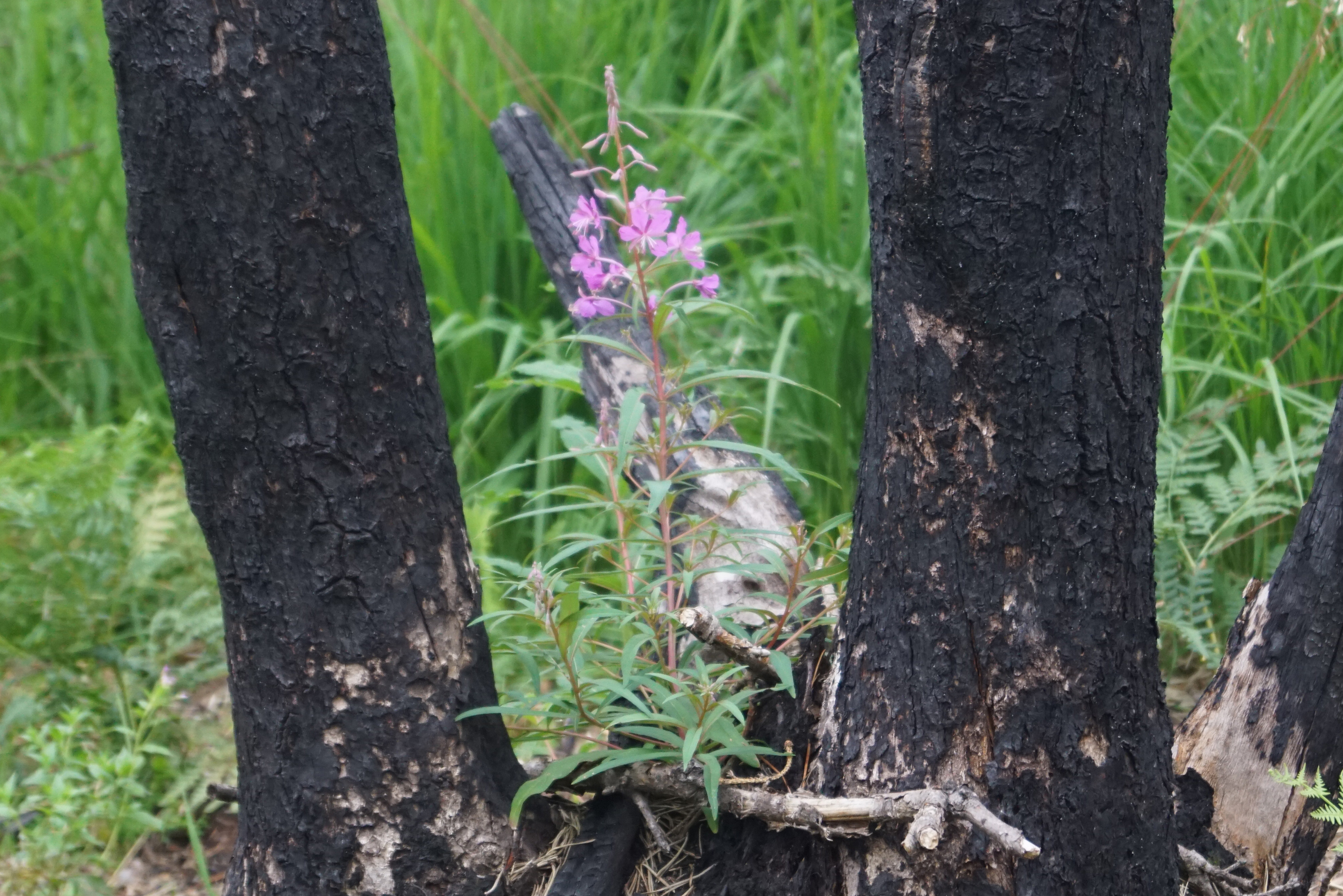 Fireweed (Epilobium angustifolium).